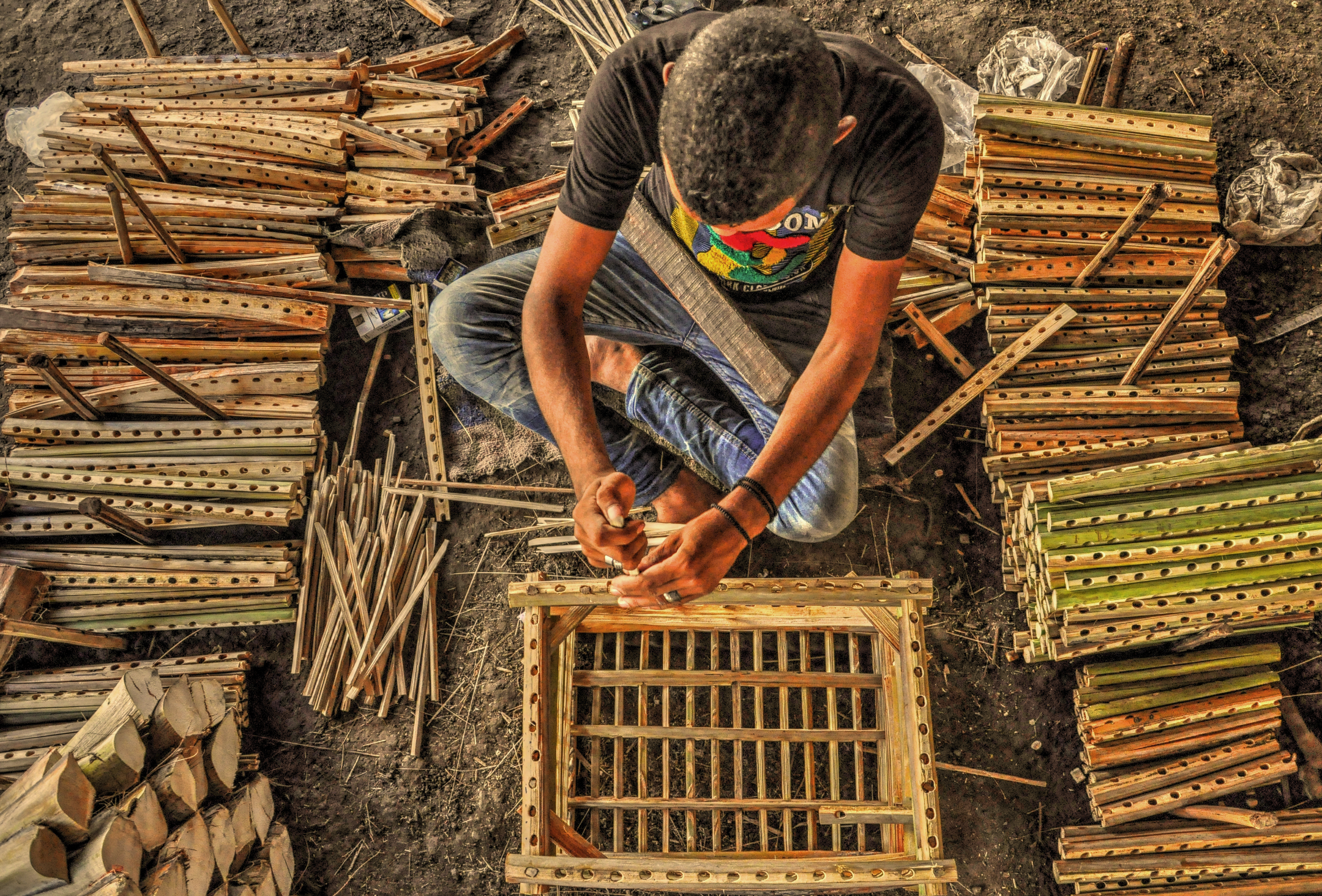 The wood from the palm leaves is cut into small pieces and assembled into cages where fruits and vegetables are sold. This is an image of "African people at work" from Egypt